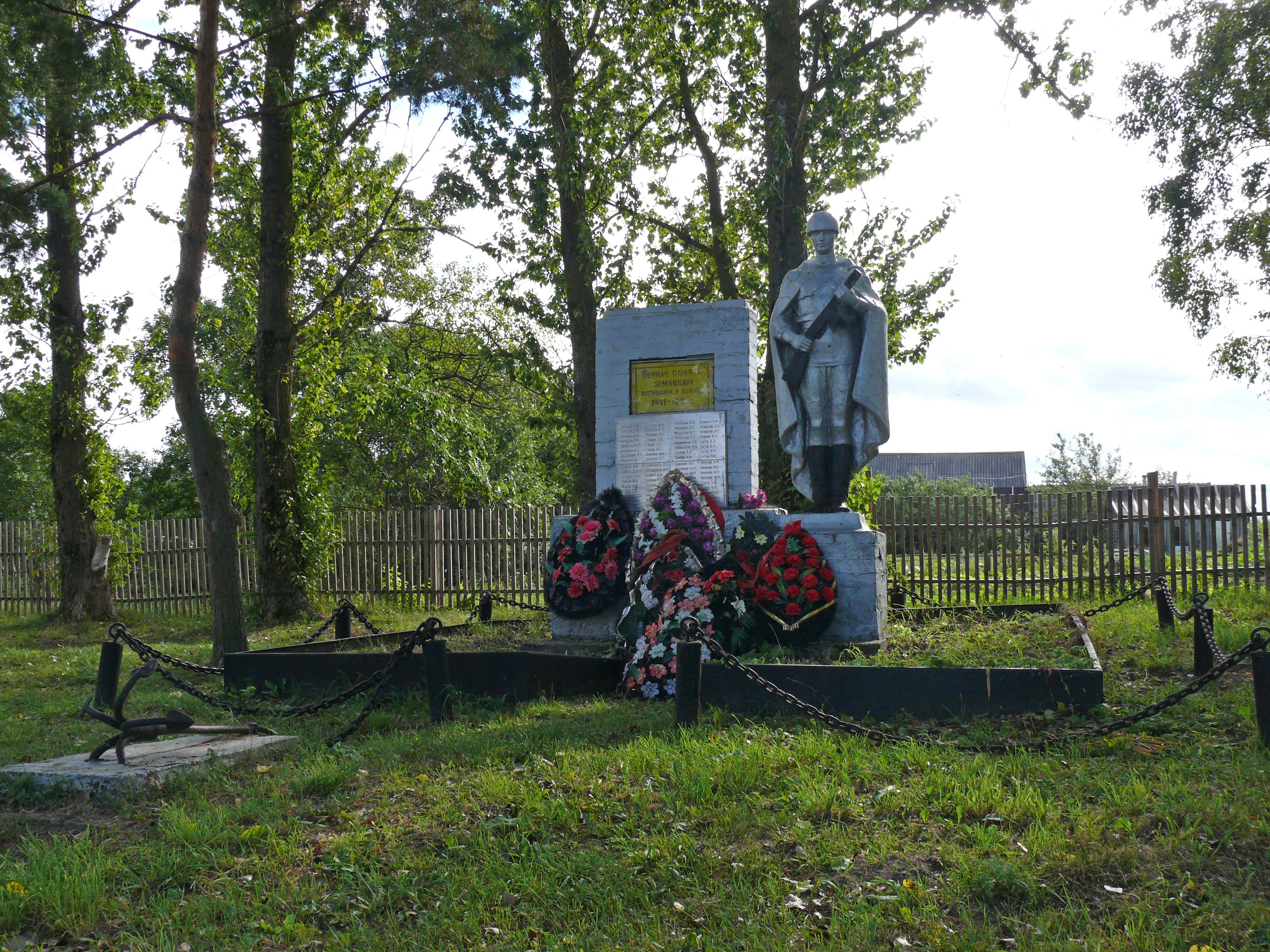 Zaval village in Novgorodsky district, Novgorod oblast, Russia